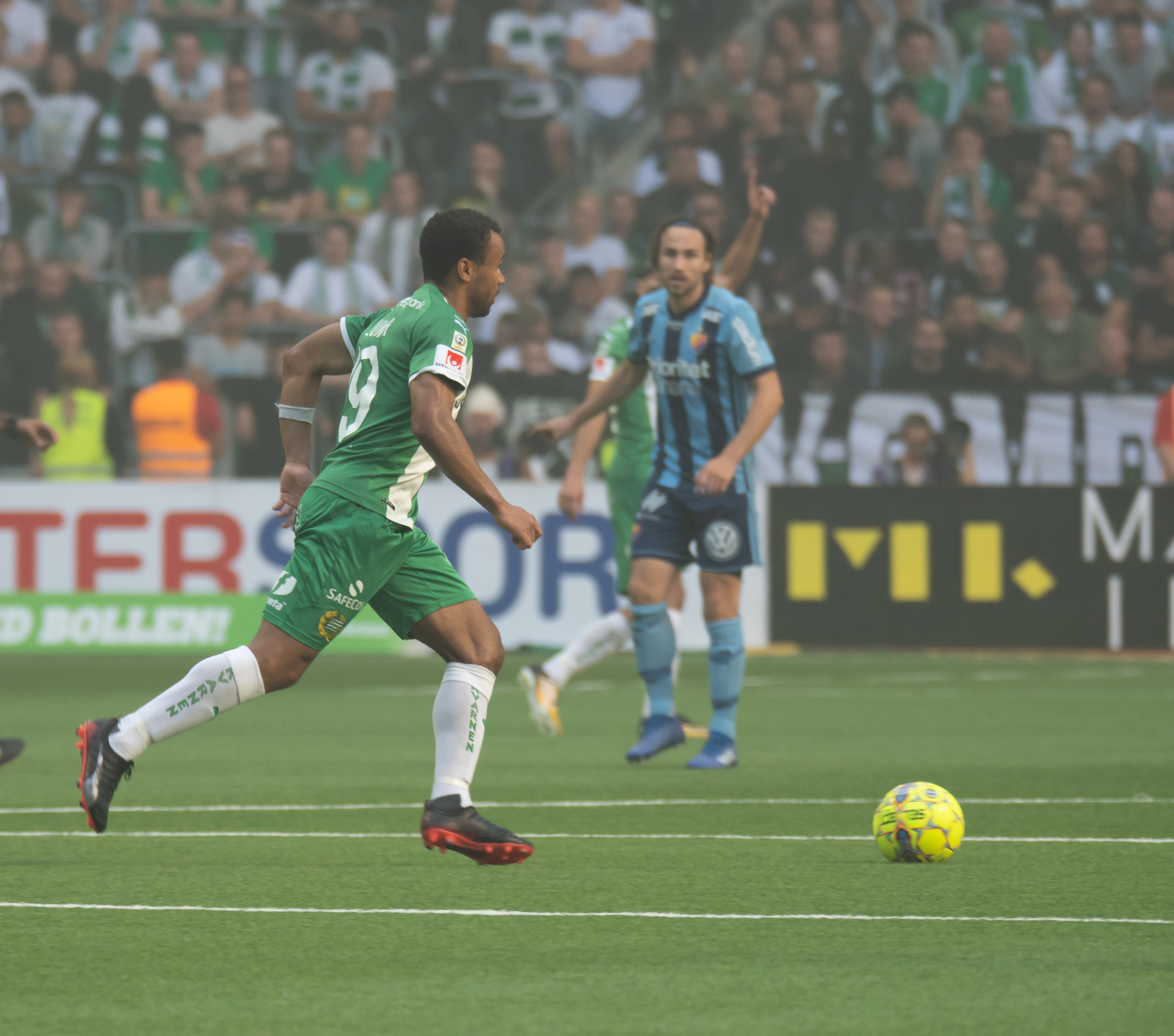 Hammarby-Djurgården 2018-09-03